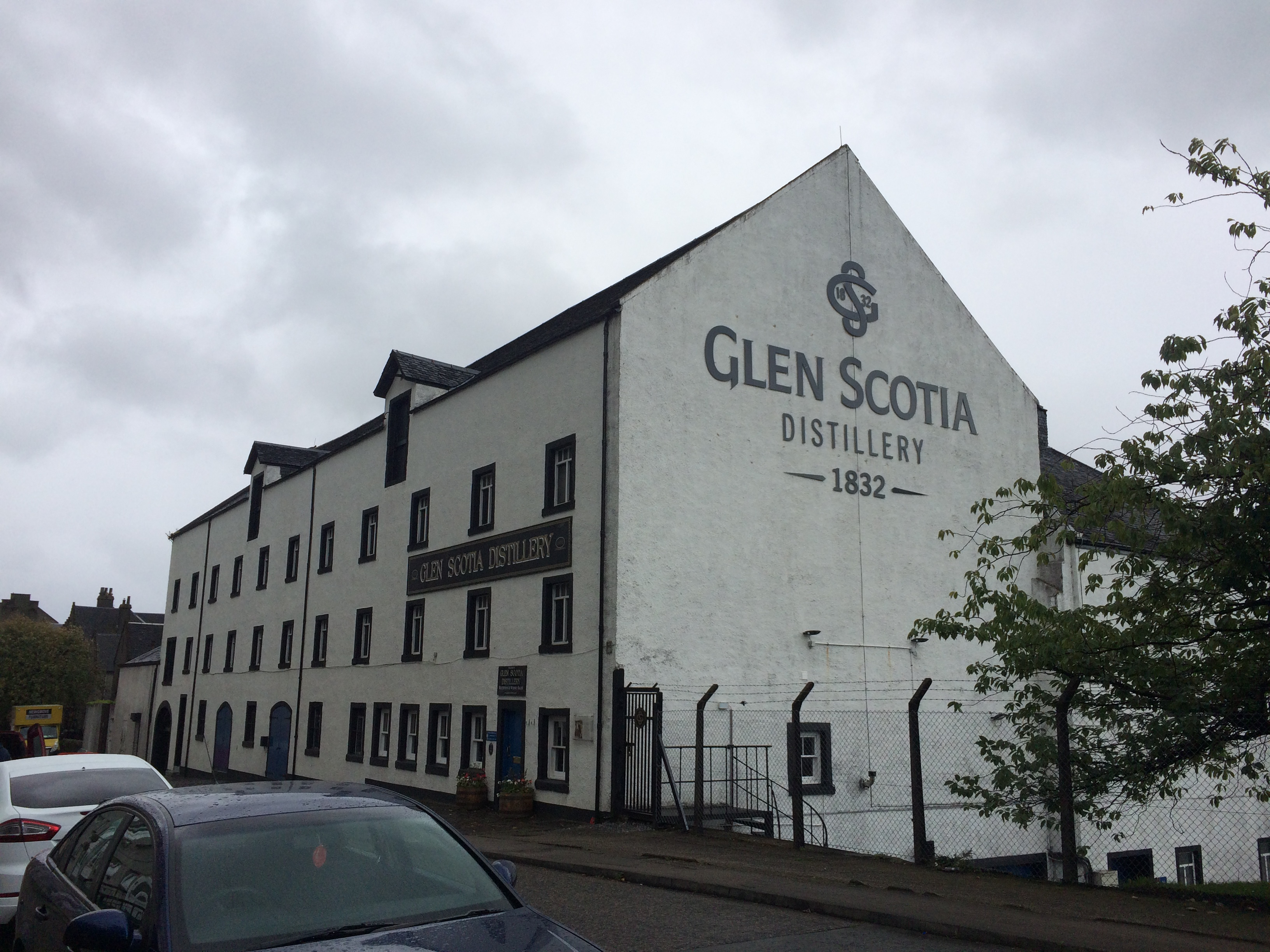 Campbeltown, Dalintober, High Street, Glen Scotia Distillery Wikidata has entry Q17773977 with data related to this item.